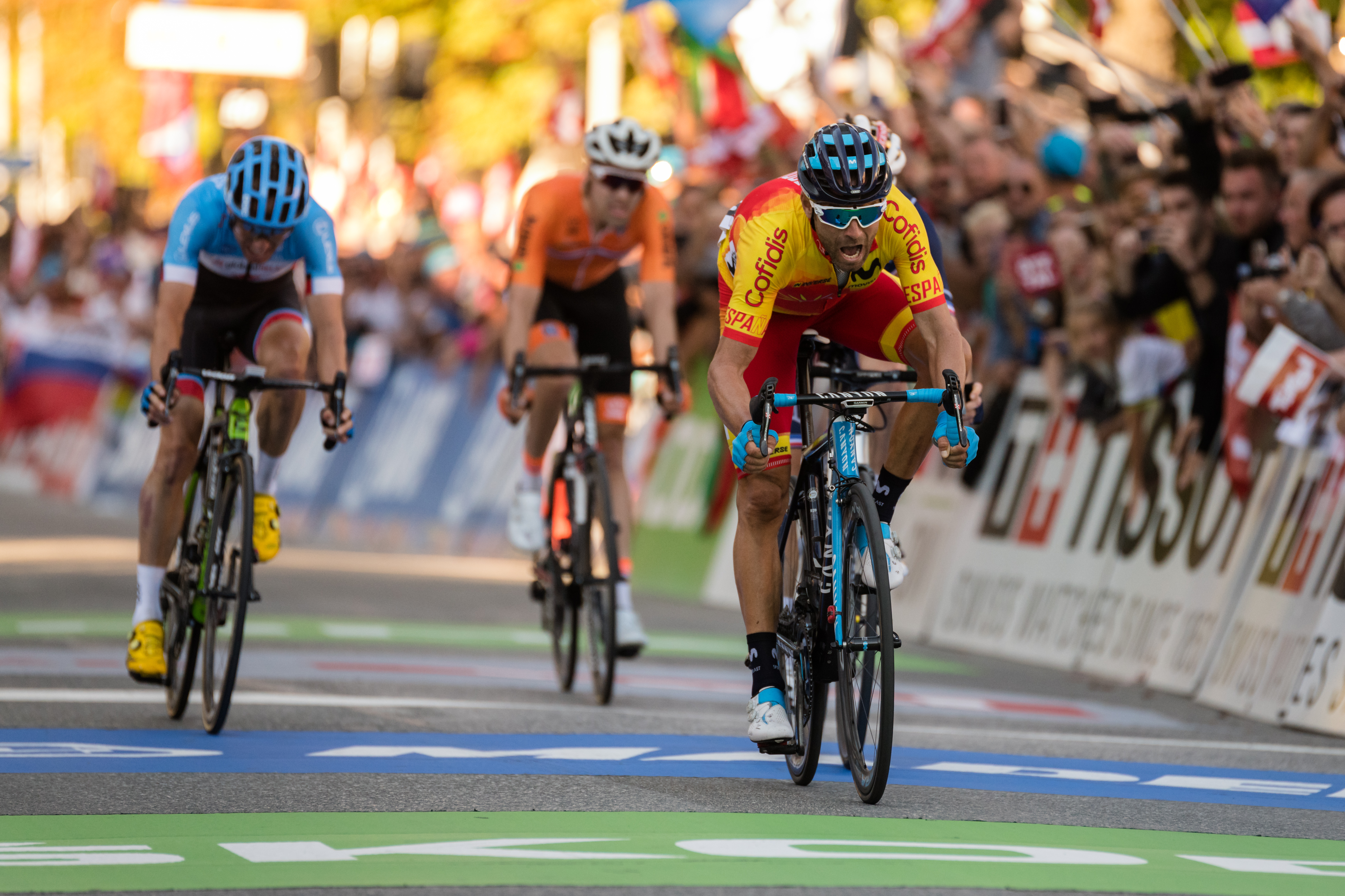 2018 UCI Road World Championships Innsbruck/Tirol Men Elite Road Race. Picture shows: Alejandro Valverde of Spain wins the final sprint against Romain Bardet of France, Michael Woods of Canada and Tom Dumoulin of the Netherlands